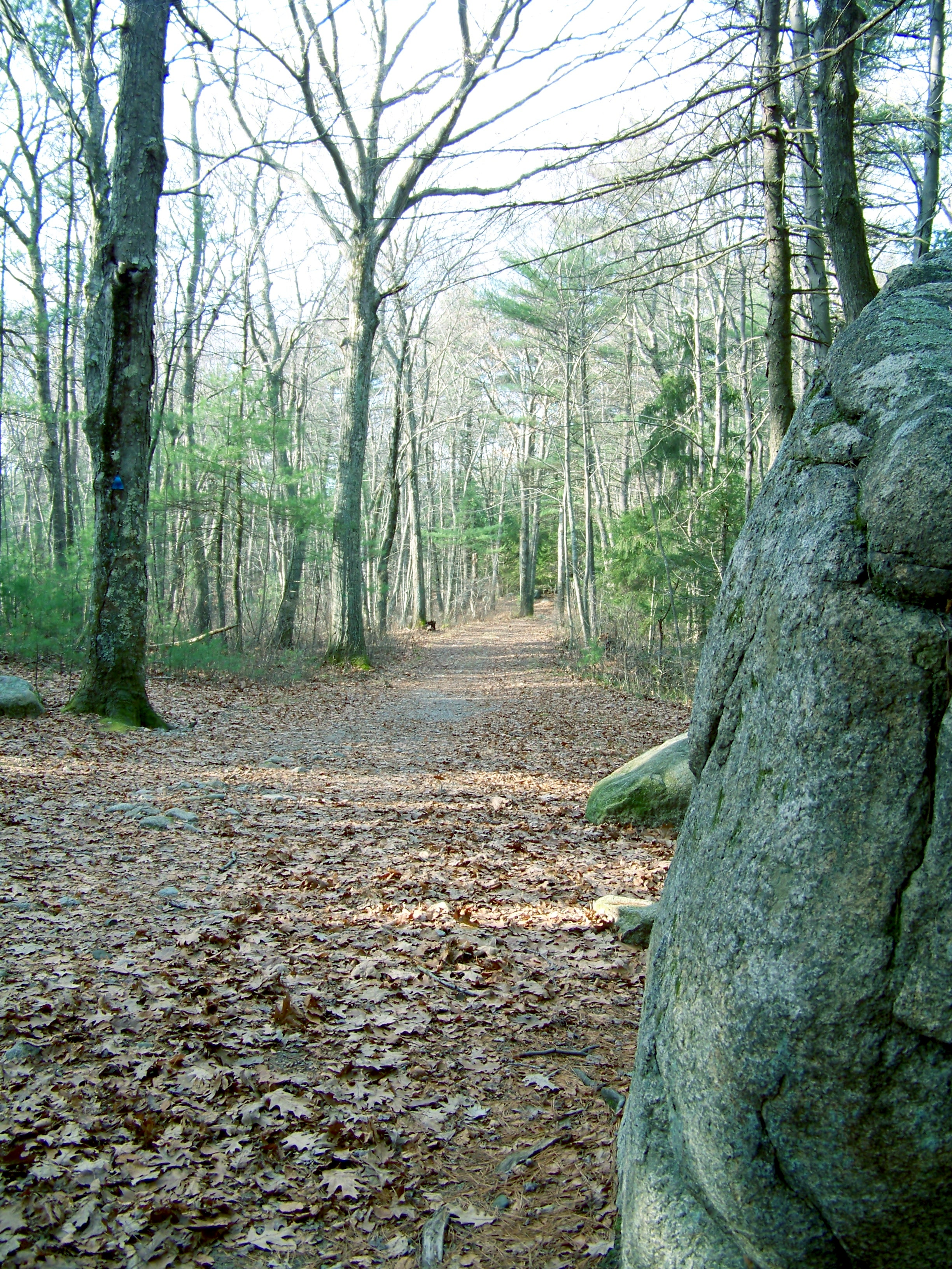 F. Gilbert Hill hiking trail